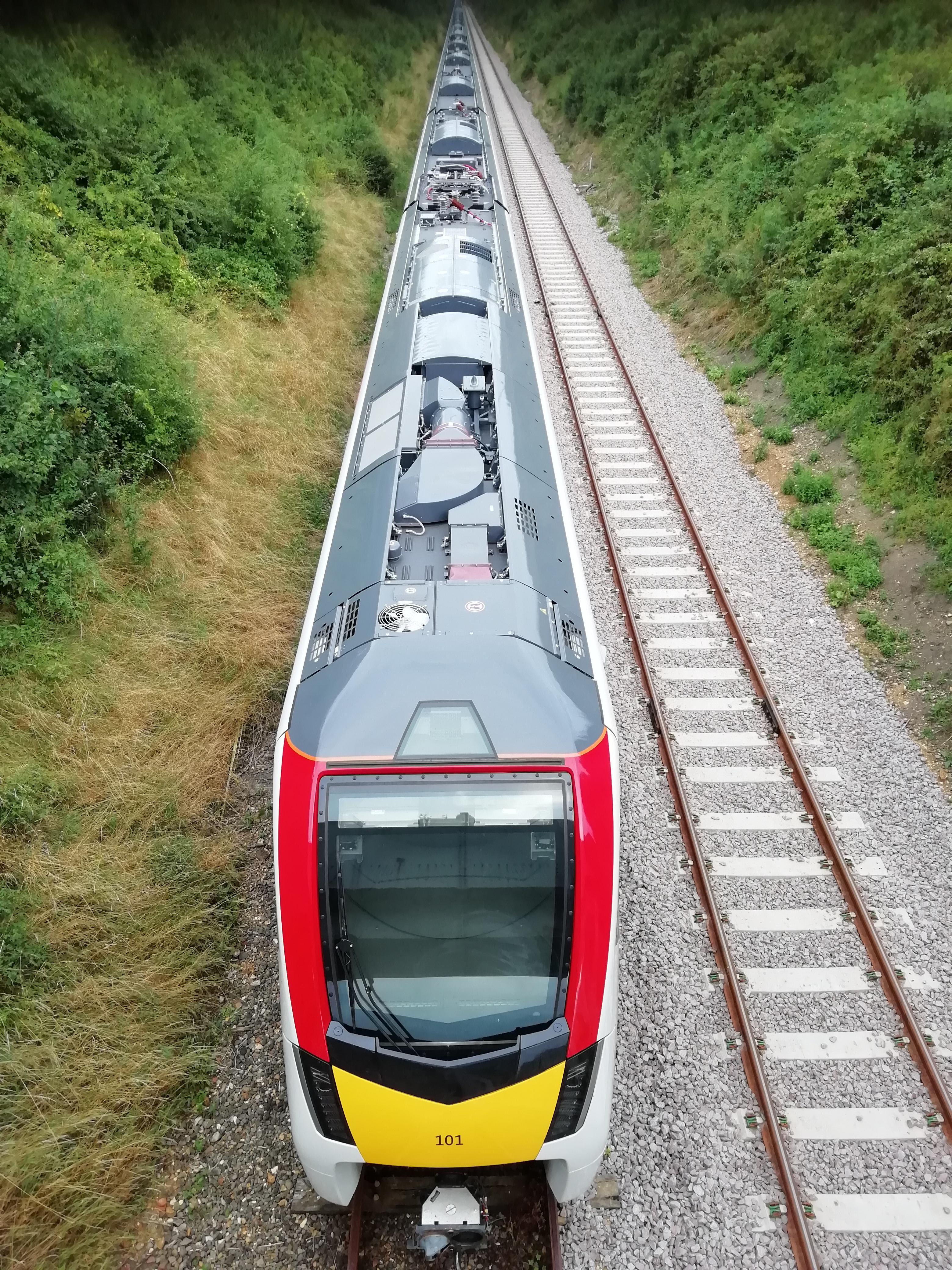 Class 745/1 sets stored at Danemoor on the Mid-Norfolk Railway, August 2019.